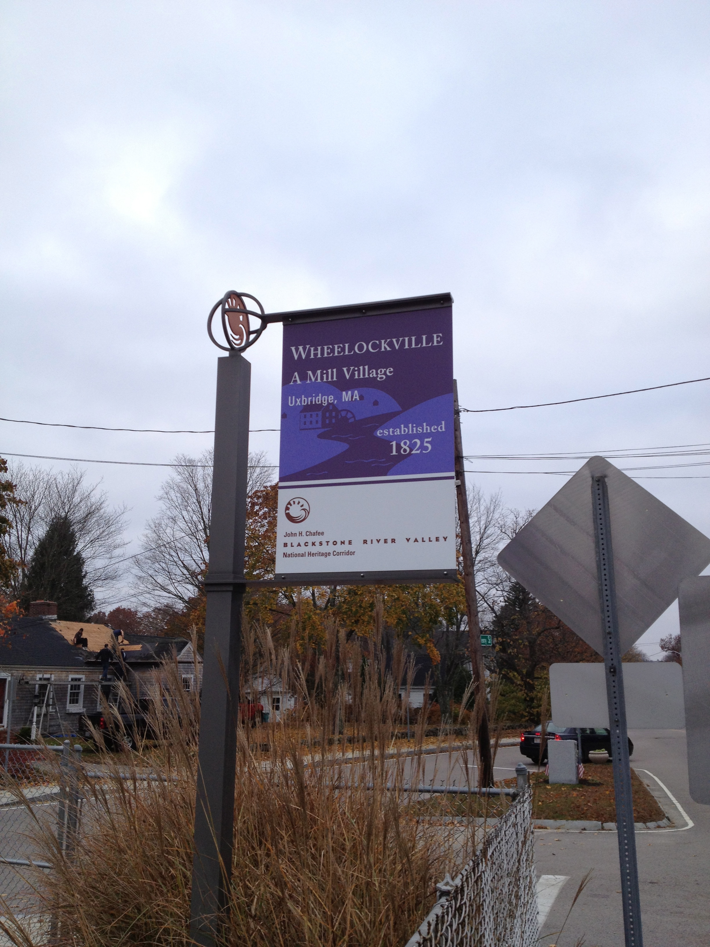 Wheelockville is a mill village at Uxbridge, MA. Luke Taft built the firts water powered mill in this village in 1825 on the West River